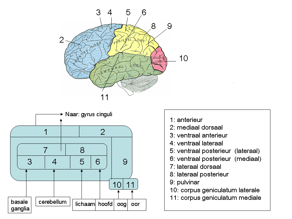 Diagram of the human brain with parts labelled in Dutch.